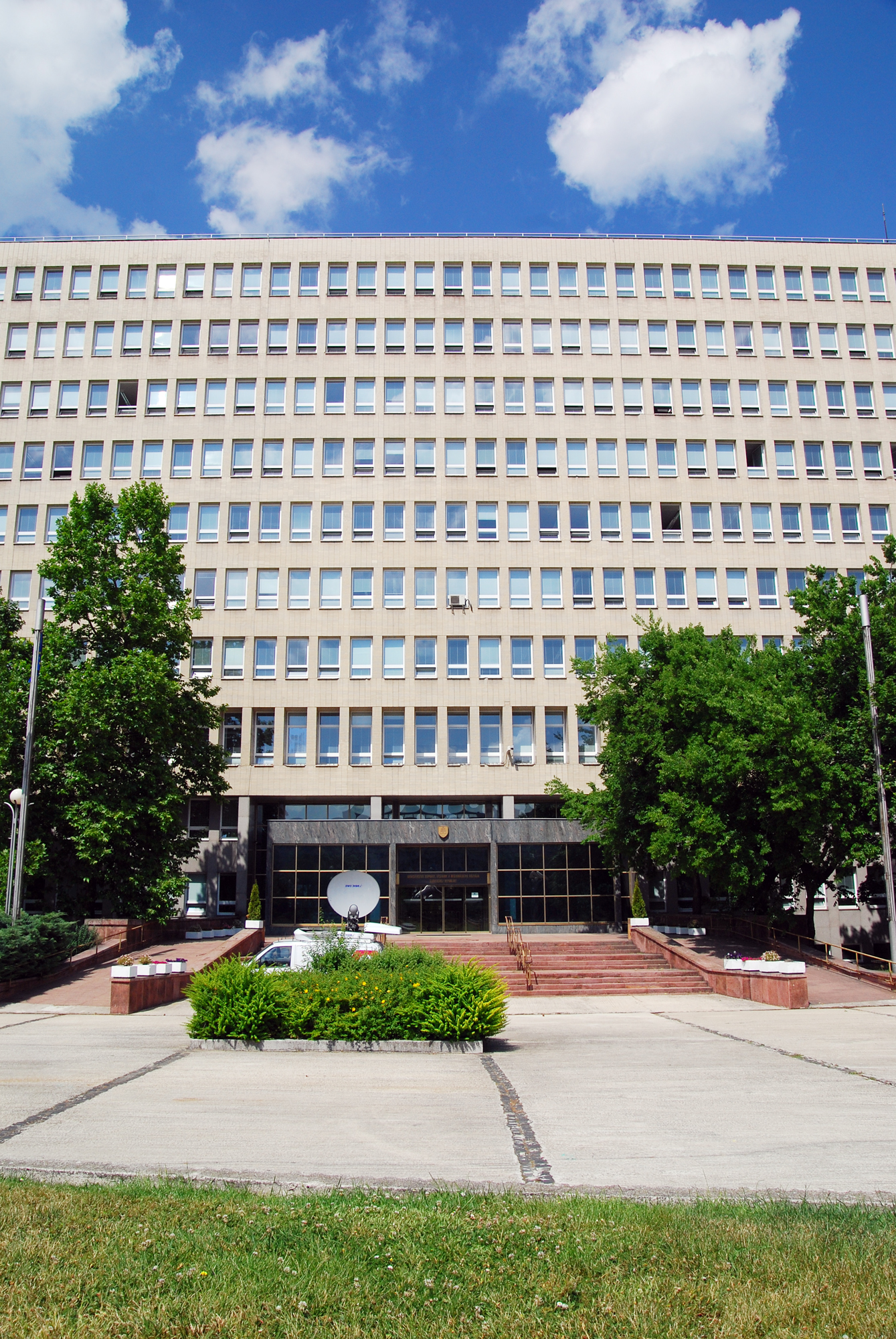 Head office of the Ministry of Transport, Construction, and Regional Development - Námestie slobody č. 6 P.O.BOX 100 810 05 Bratislava Slovenská republika